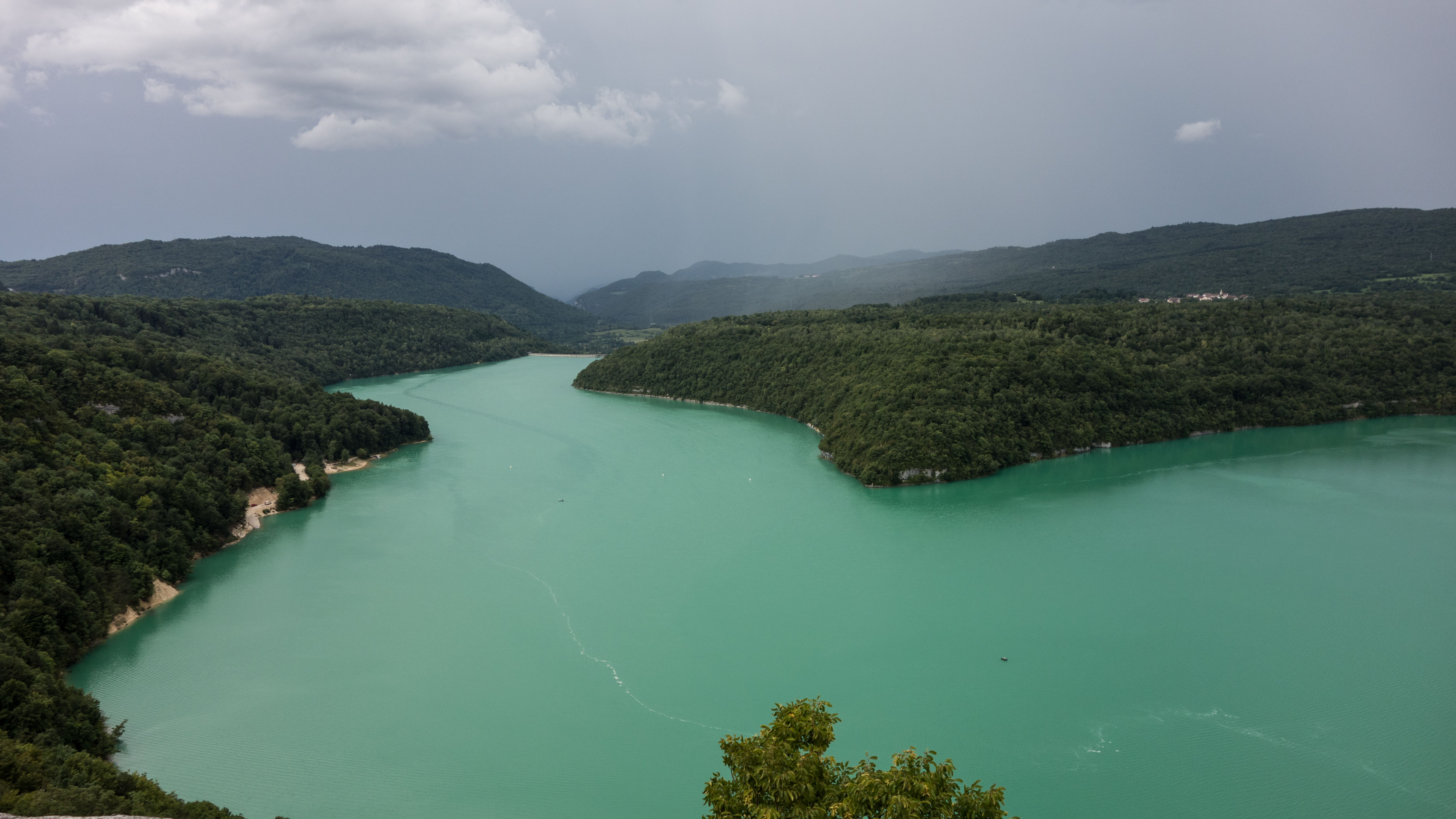 Lac de Vouglans, from "sur Faucon", 560 m high and a view over the barrage, Haut-Jura Natural Park, France